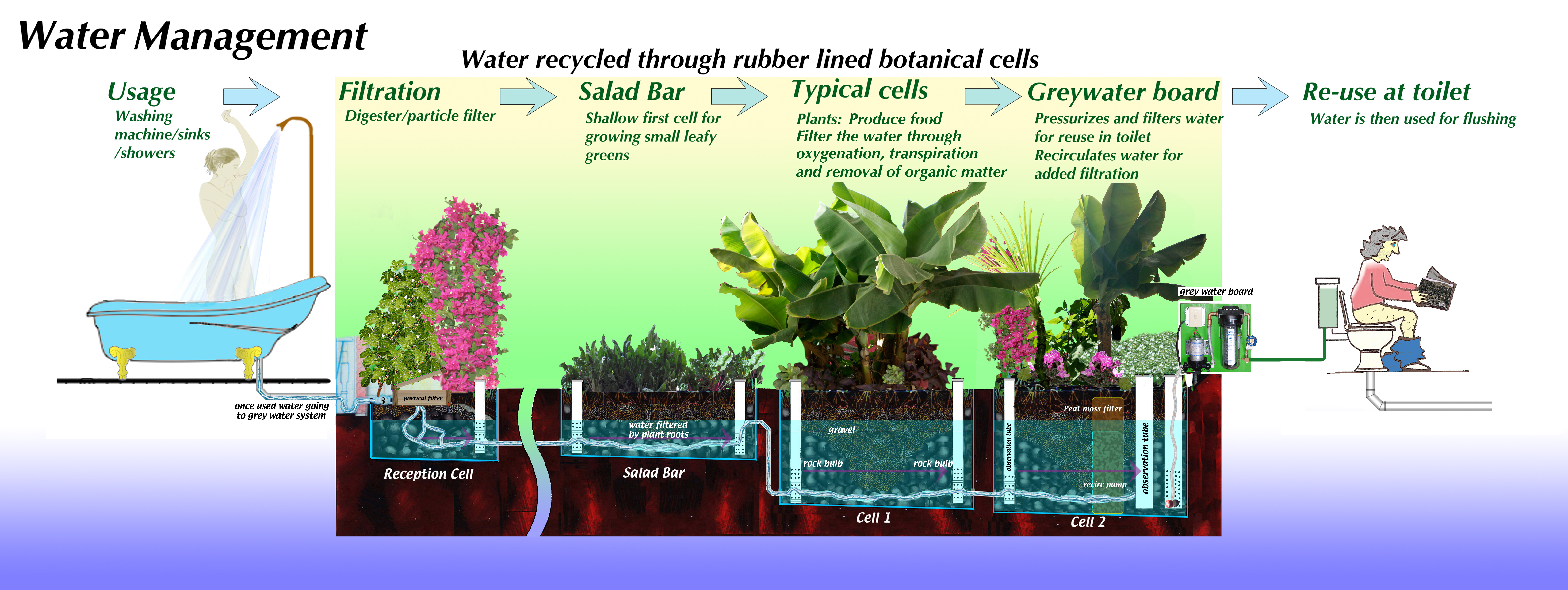 Greywater processing within an Earthship